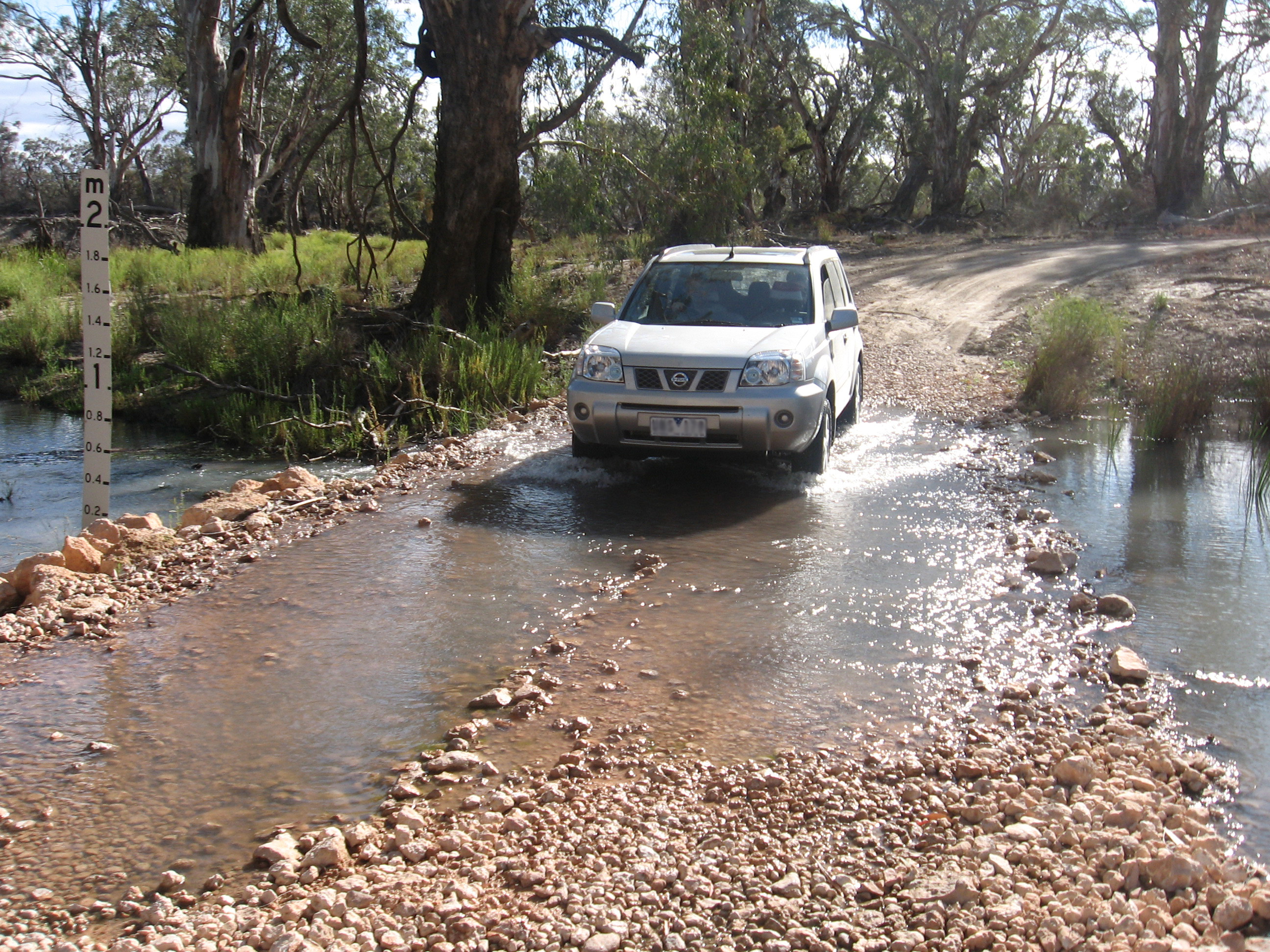 River crossing, Lindsay Island are, Murray Sunset National Park, Australia.